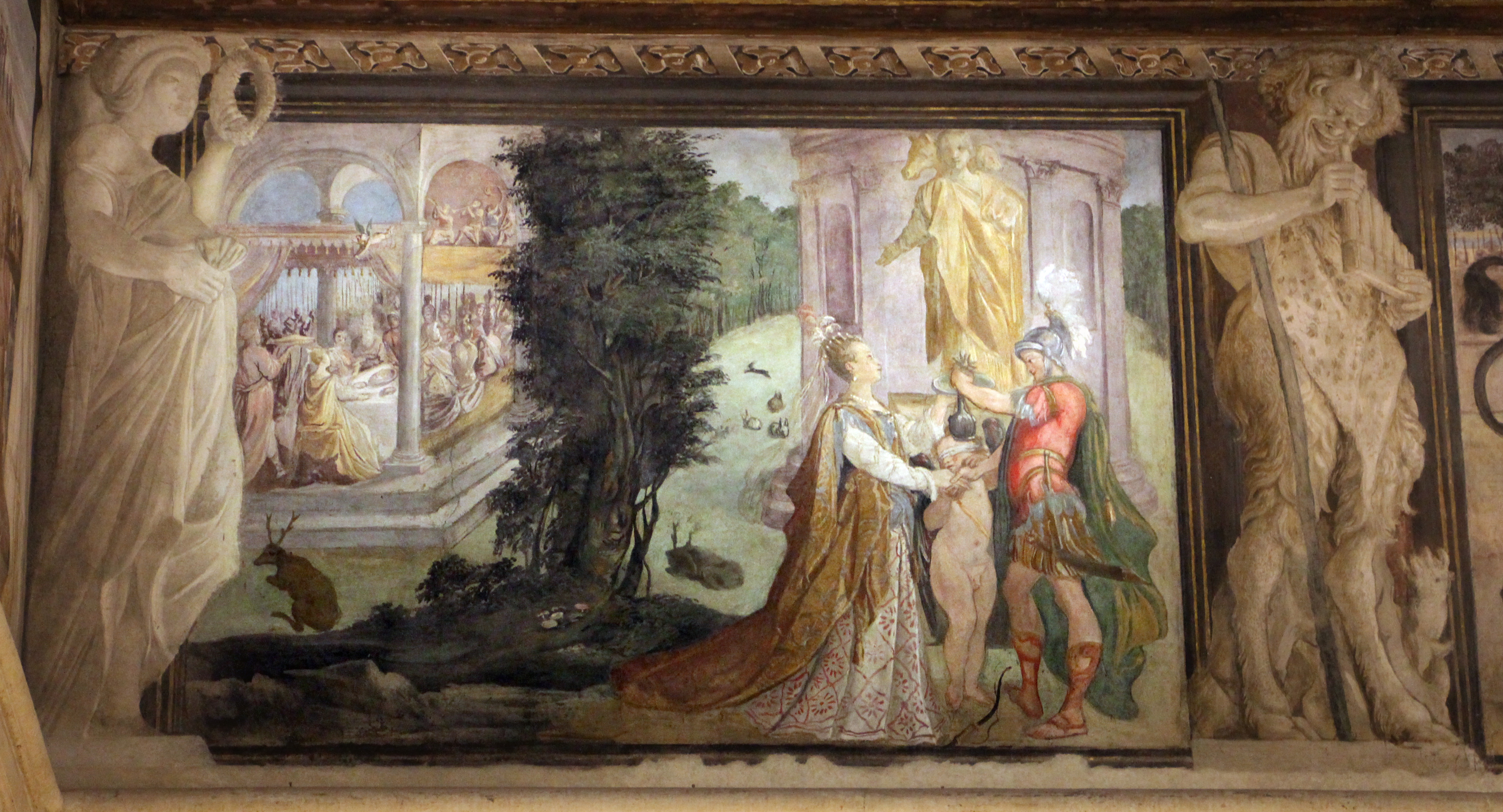 Frieze of Jason and Medea